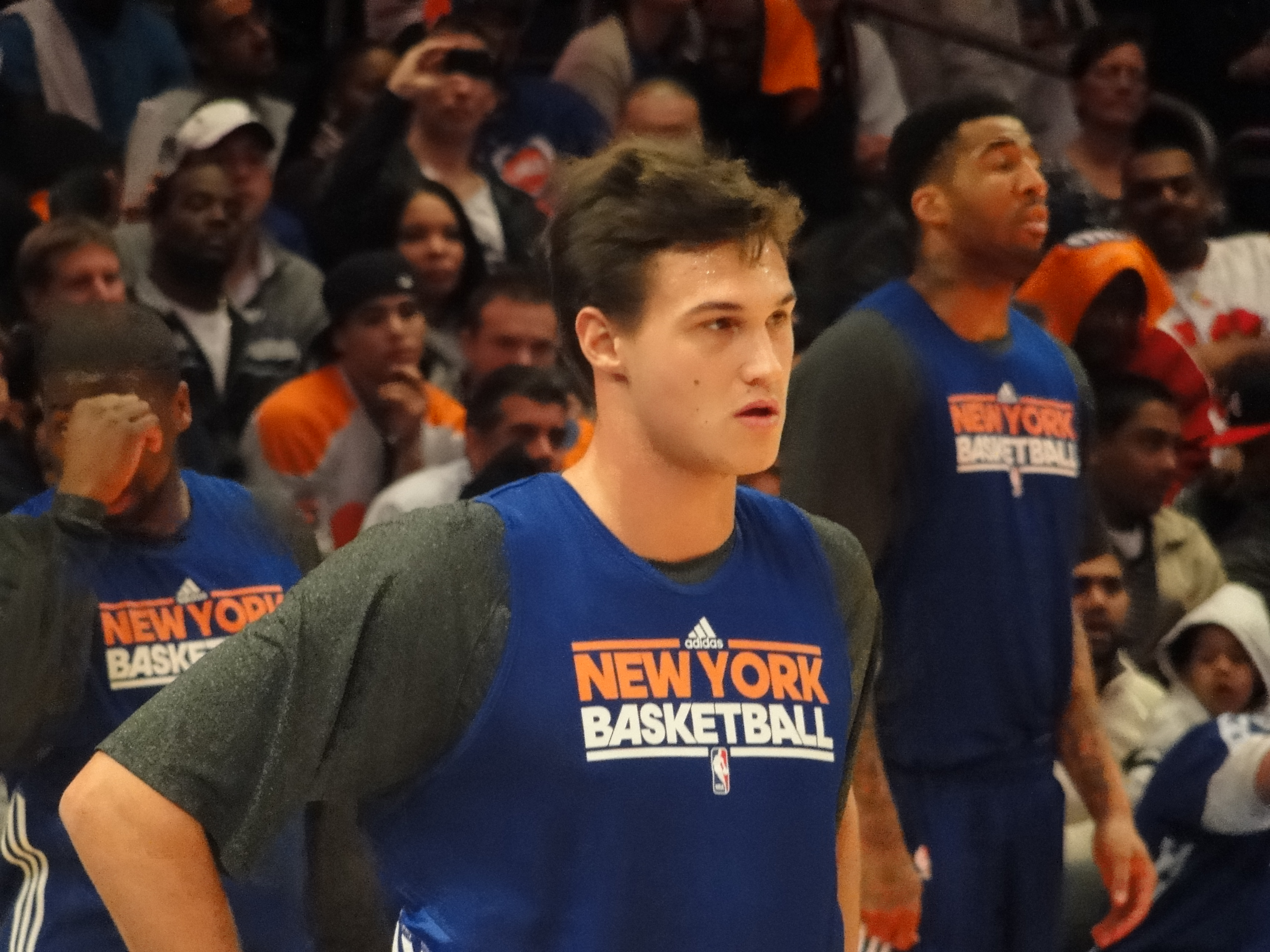 Danilo Gallinari of the New York Knicks.